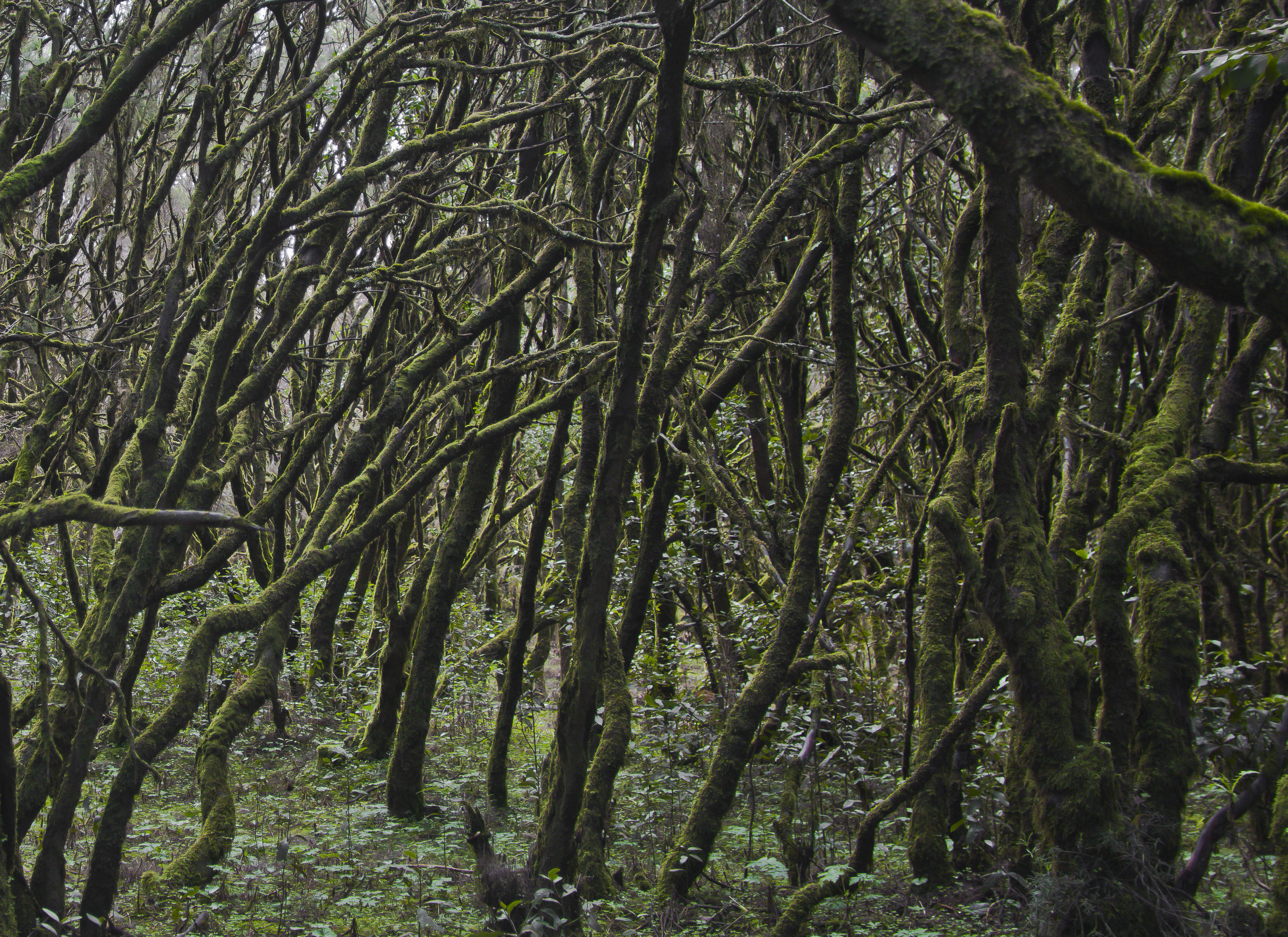 Enchanted Forest, Garajonay National Park, La Gomera, Spain